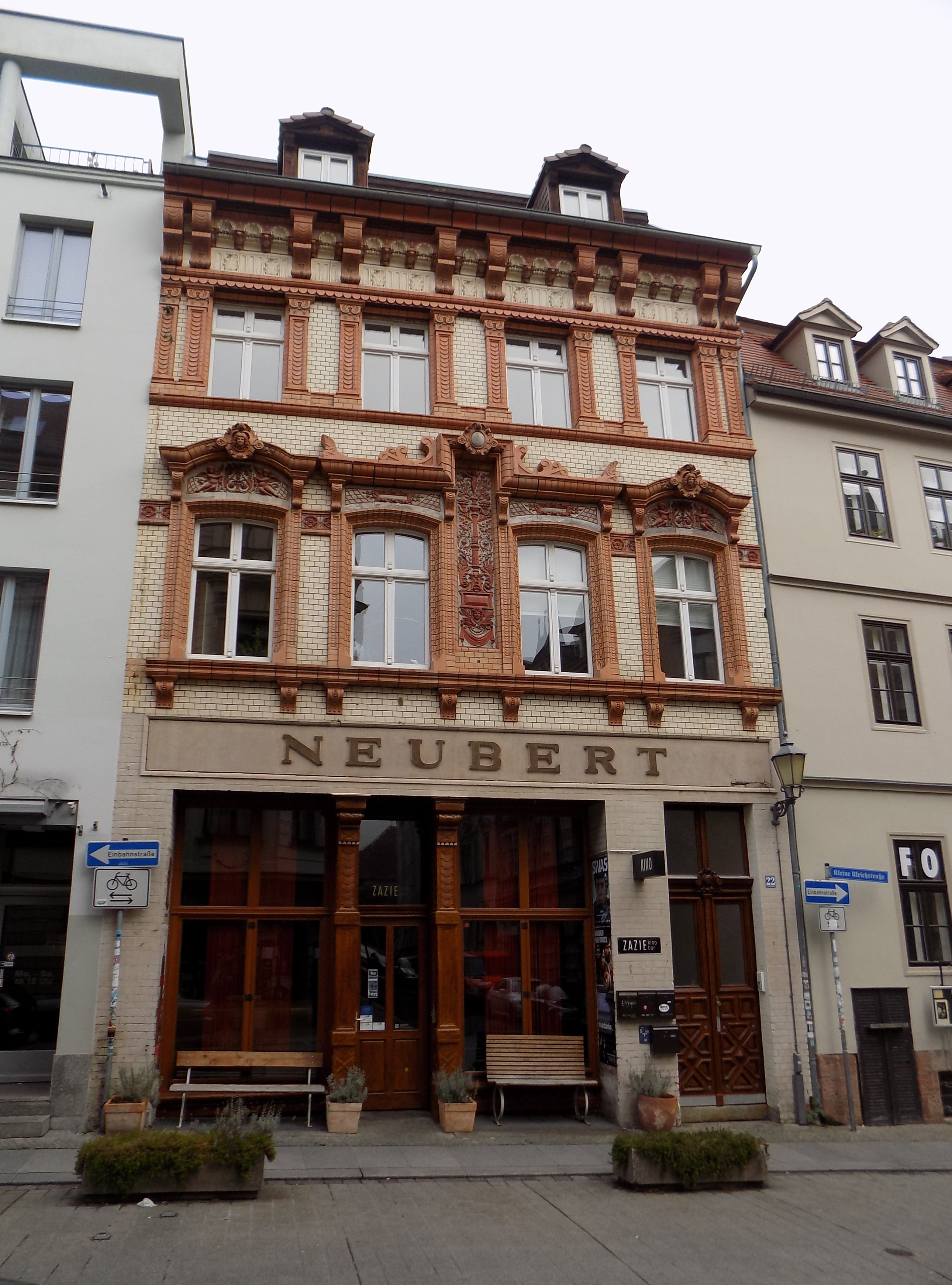 No. 22, Kleine Ulrichstrasse in Halle/Saale (Saxony-Anhalt)